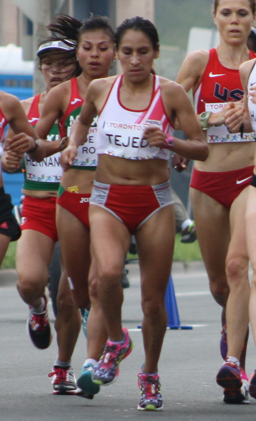 The lead pack in the Pan American Games women's marathon.